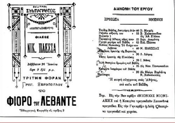 The flower of Levante, the first poster of the theatrical play of Grigorios Xenopoulos, Greece. 1914